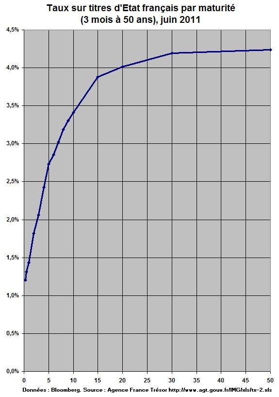 Interest rates on government bonds by maturity (3 months to 50 years), France, June 2011